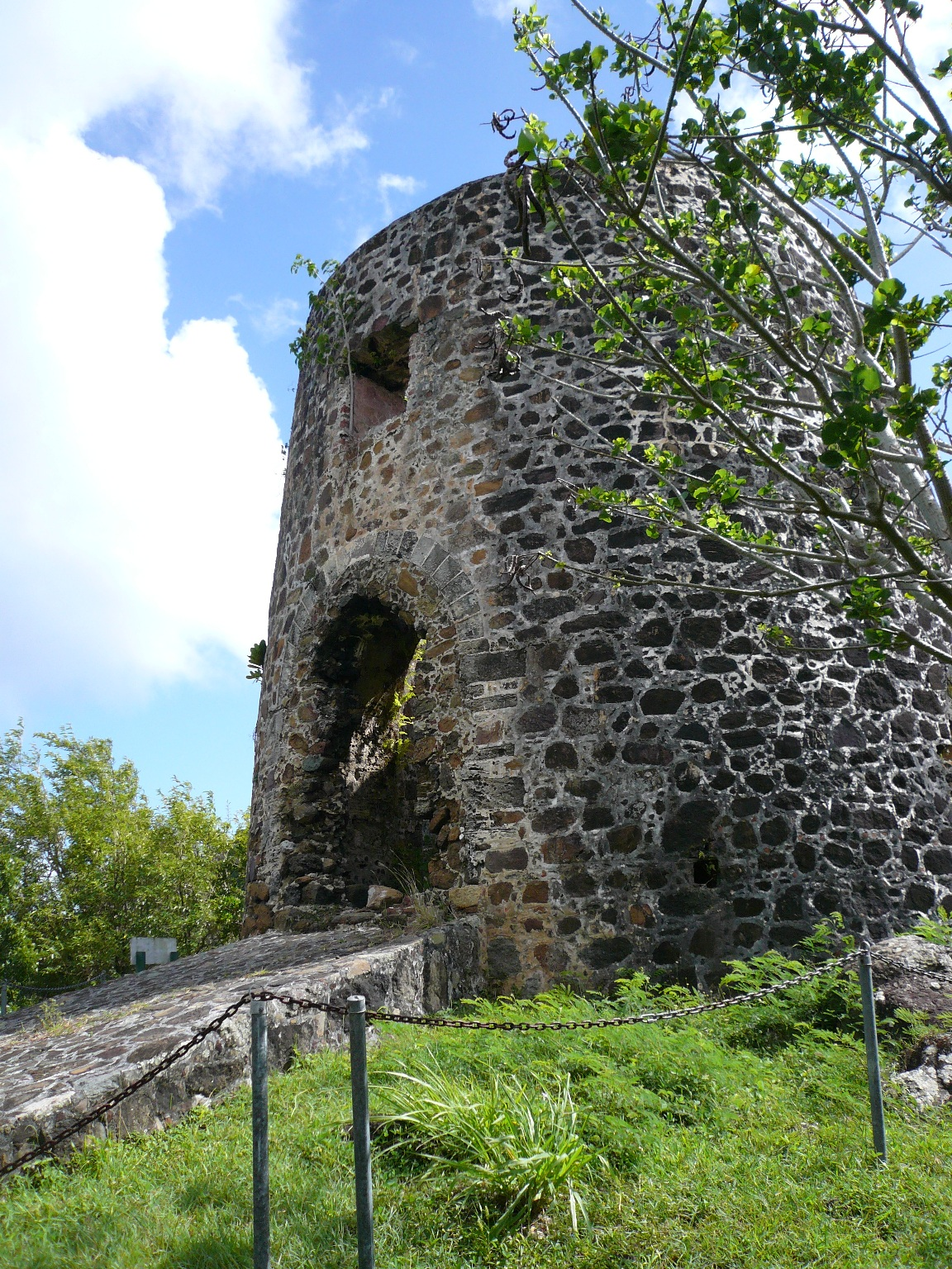 Photograph of Mount Healthy windmill, Tortola, British Virgin Islands (Photograph taken by User:Legis in August 2007)